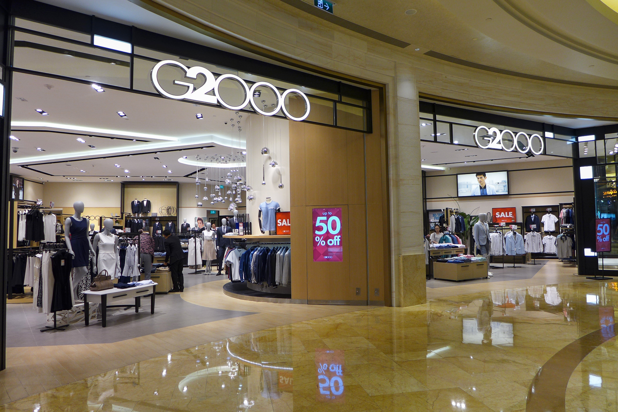 G2000 in Sands Cotai Central